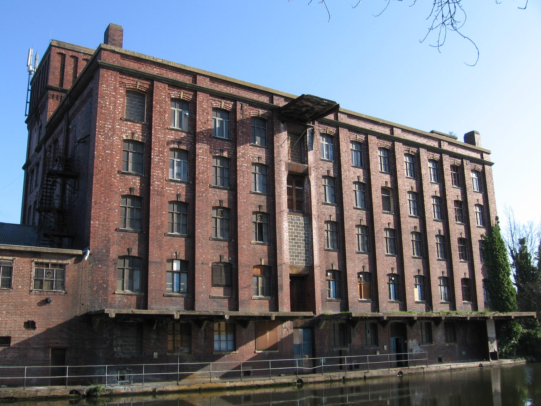 BBCS Warehouse on the South Yorkshire Navigation at Mexborough, seen from the south